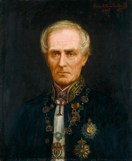 Manuel Inocêncio Liberato dos Santos Carvalho e Silva (1802-1887), Portuguese musician and composer.